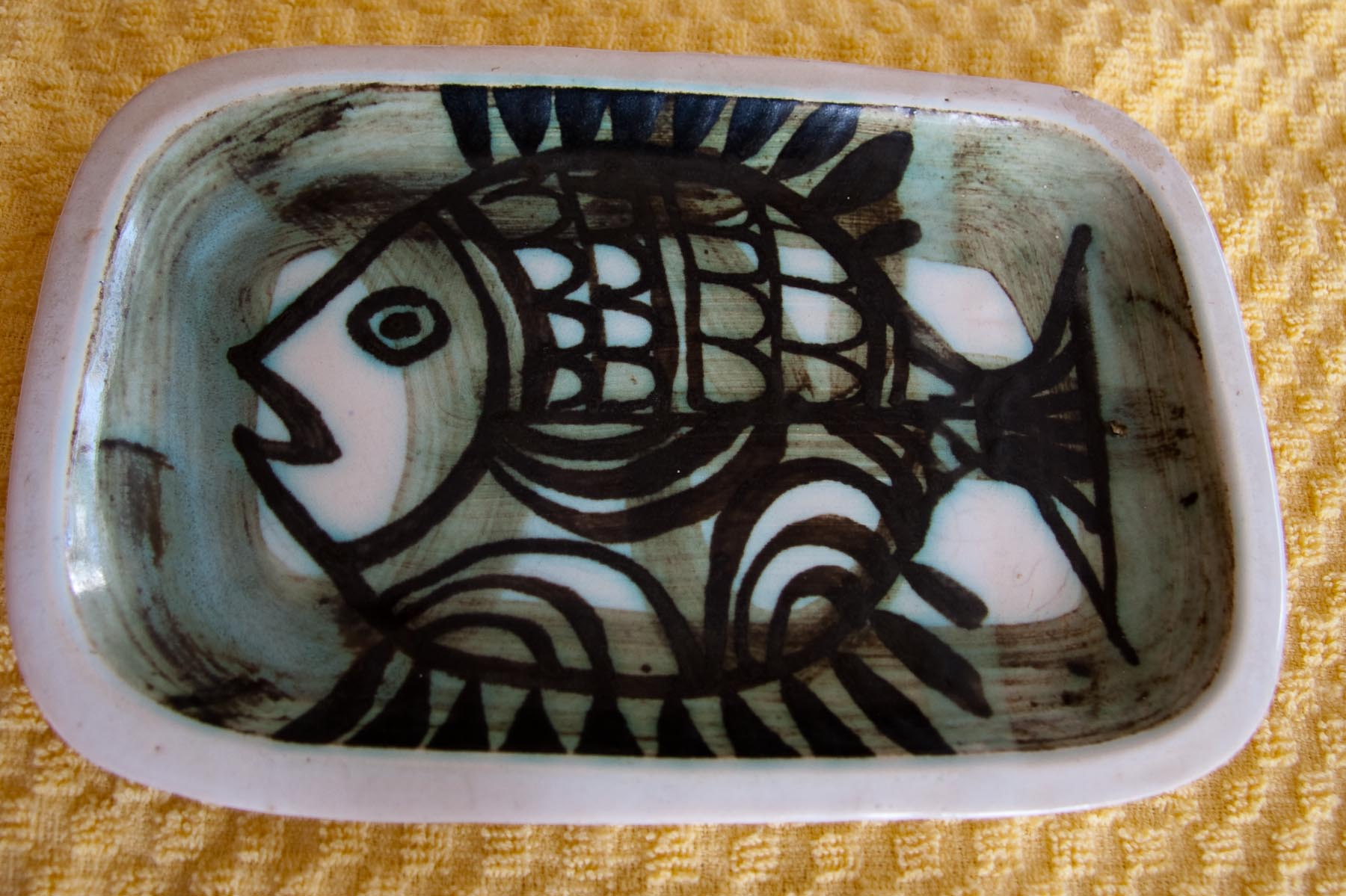 A photo of a Tremaen fish dish